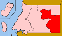 Map of Equatorial Guinea showing Wele-Nzas province.